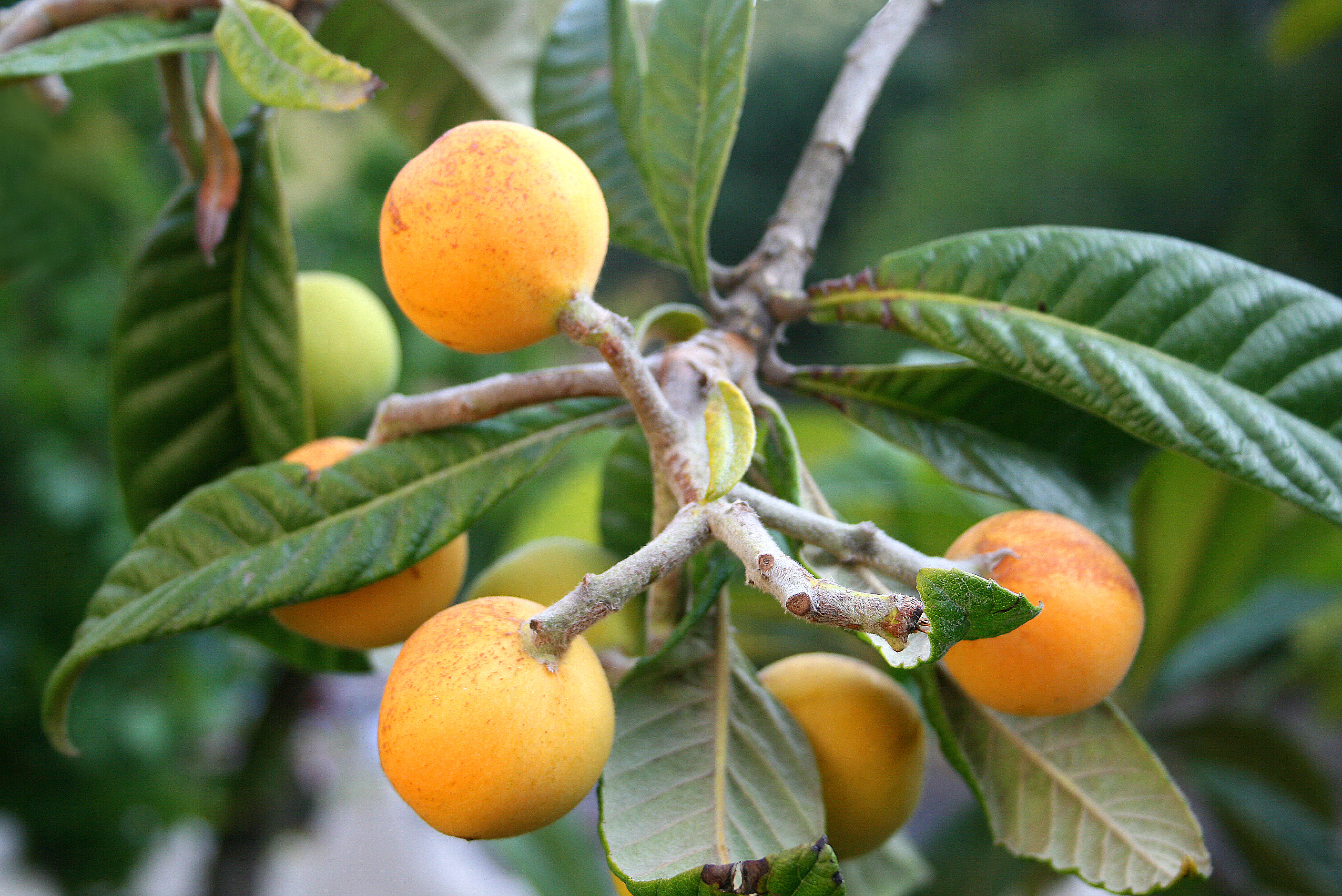 Loquat (Eriobotrya japonica) – Habit :Bonifacio - (Corse-du-Sud) - France.